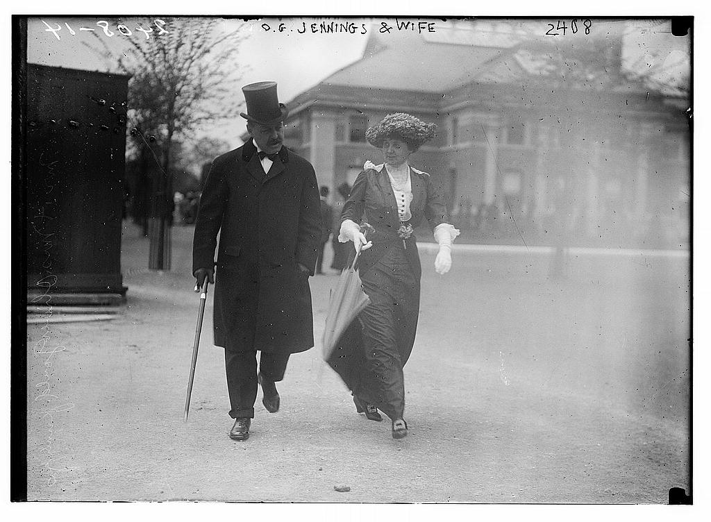 Bain News Service,, publisher. O. G. Jennings & wife [between 1910 and 1915] 1 negative : glass ; 5 x 7 in. or smaller. Notes: Title from unverified data provided by the Bain News Service on the negatives or caption cards. Forms part of: George Grantham Bain Collection (Library of Congress). Format: Glass negatives. Repository: Library of Congress, Prints and Photographs Division, Washington, D.C. 20540 USA, General information about the Bain Collection is available at Persistent URL: Call Number: LC-B2- 2408-14